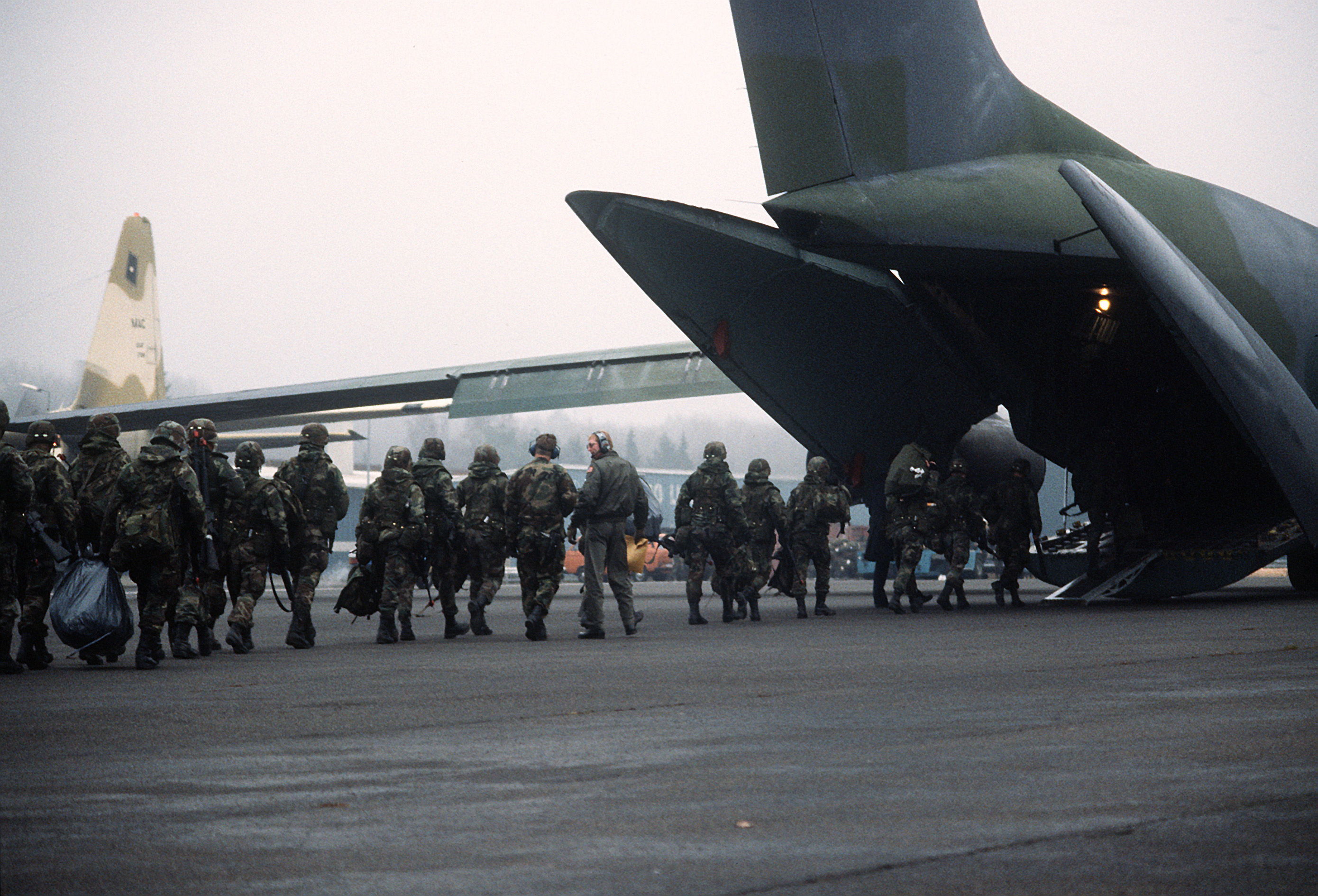 Troops of the 1st Bn., 22nd Inf., 10th Mountain Div., board a C-141B Starlifter aircraft at Luxembourg International Airport. The troops are en route to West Germany during Exercise Reforger '90.